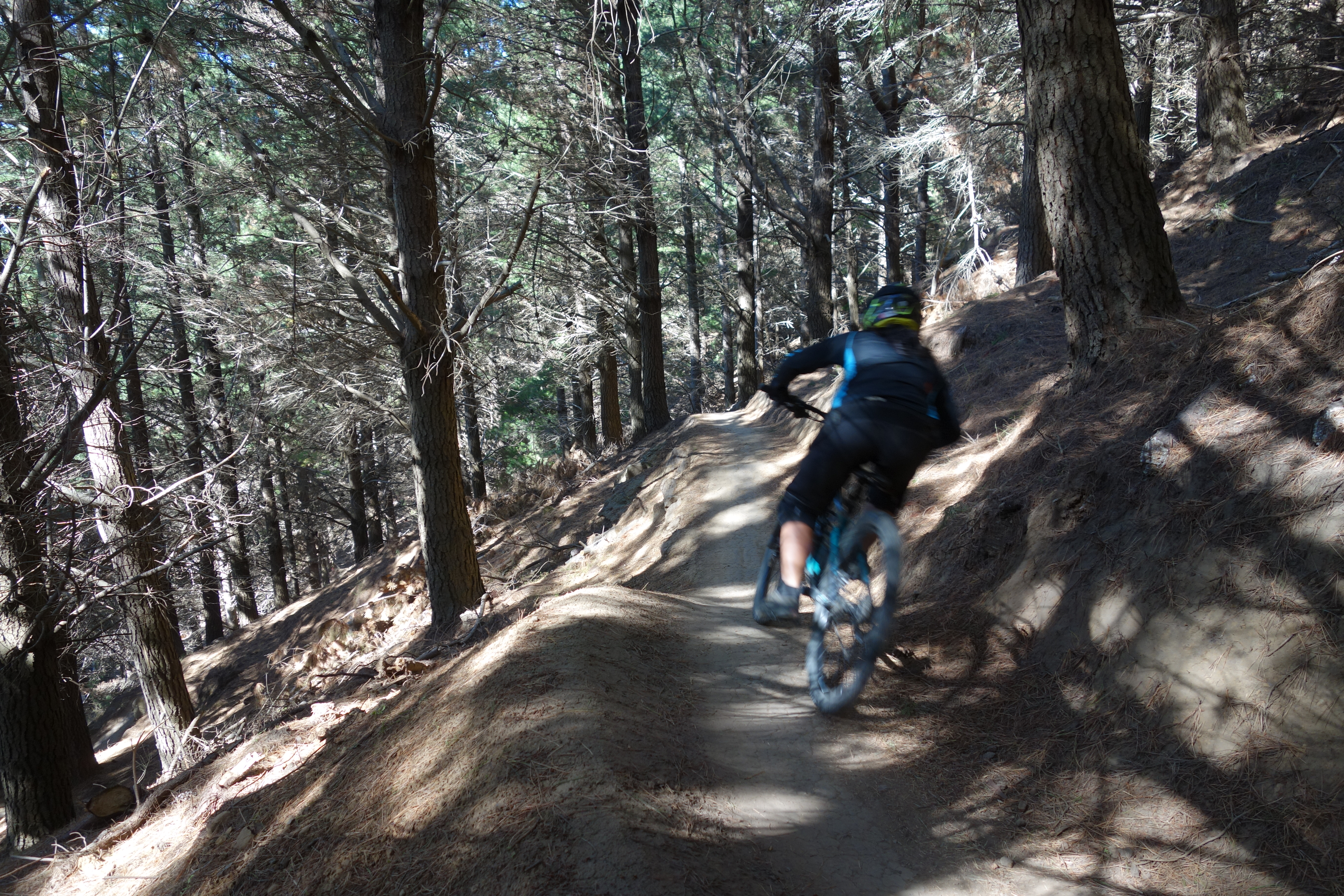 Christchurch Adventure Park - "Yeah Yeah Gnar" track